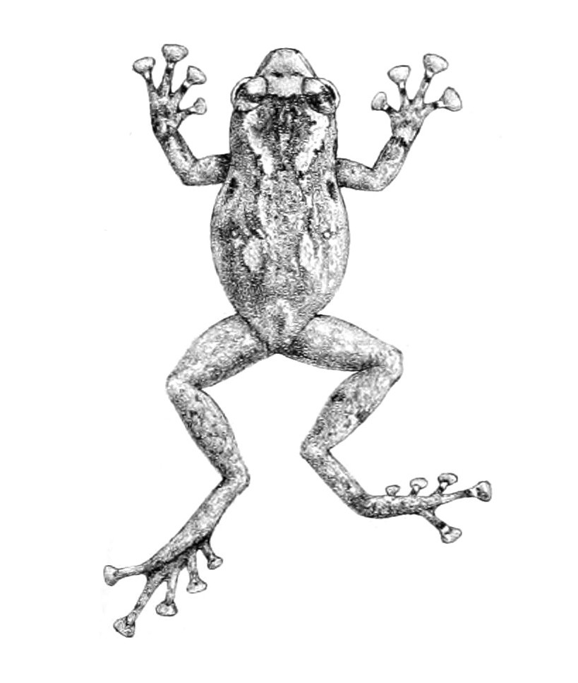 Sphenophryne loriae = Oreophryne loriae